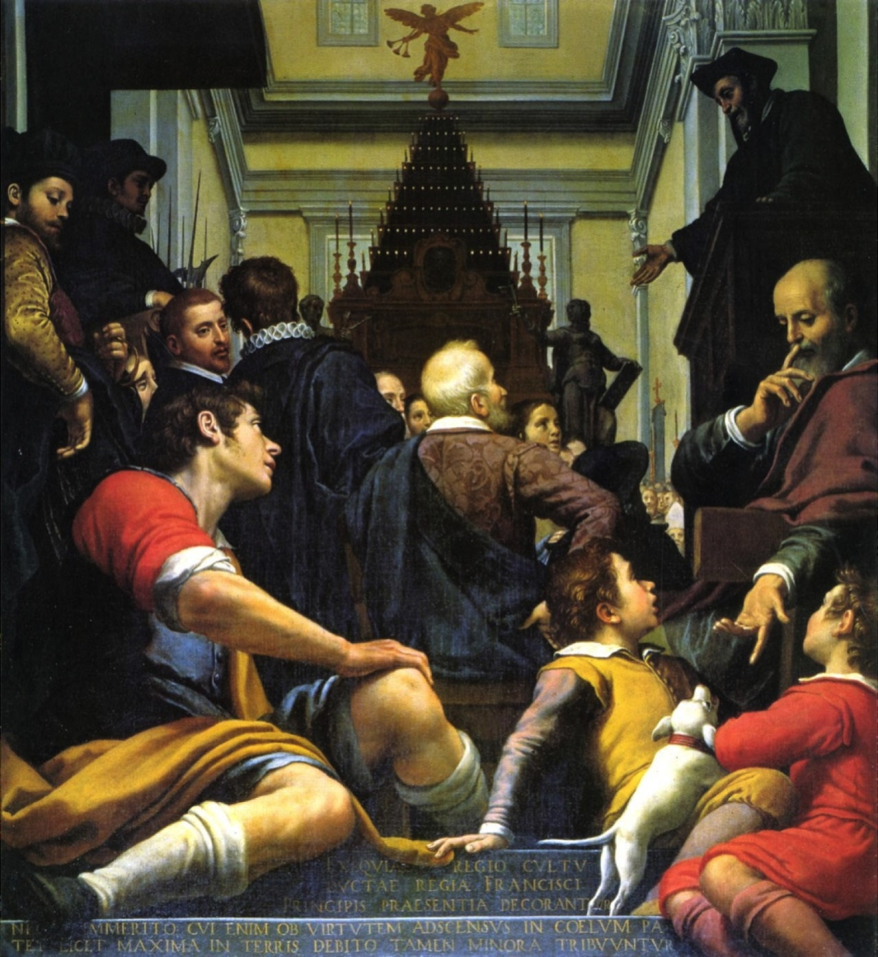 The exequies for Michelangelo Buonarroti in the church S.Lorenzo in Florence.-Painting, 1617, by Agostino Ciampelli (before 1577-1642). Oil on canvas, 152 x 138cm. Florence, Casa Buonarroti, Galleria